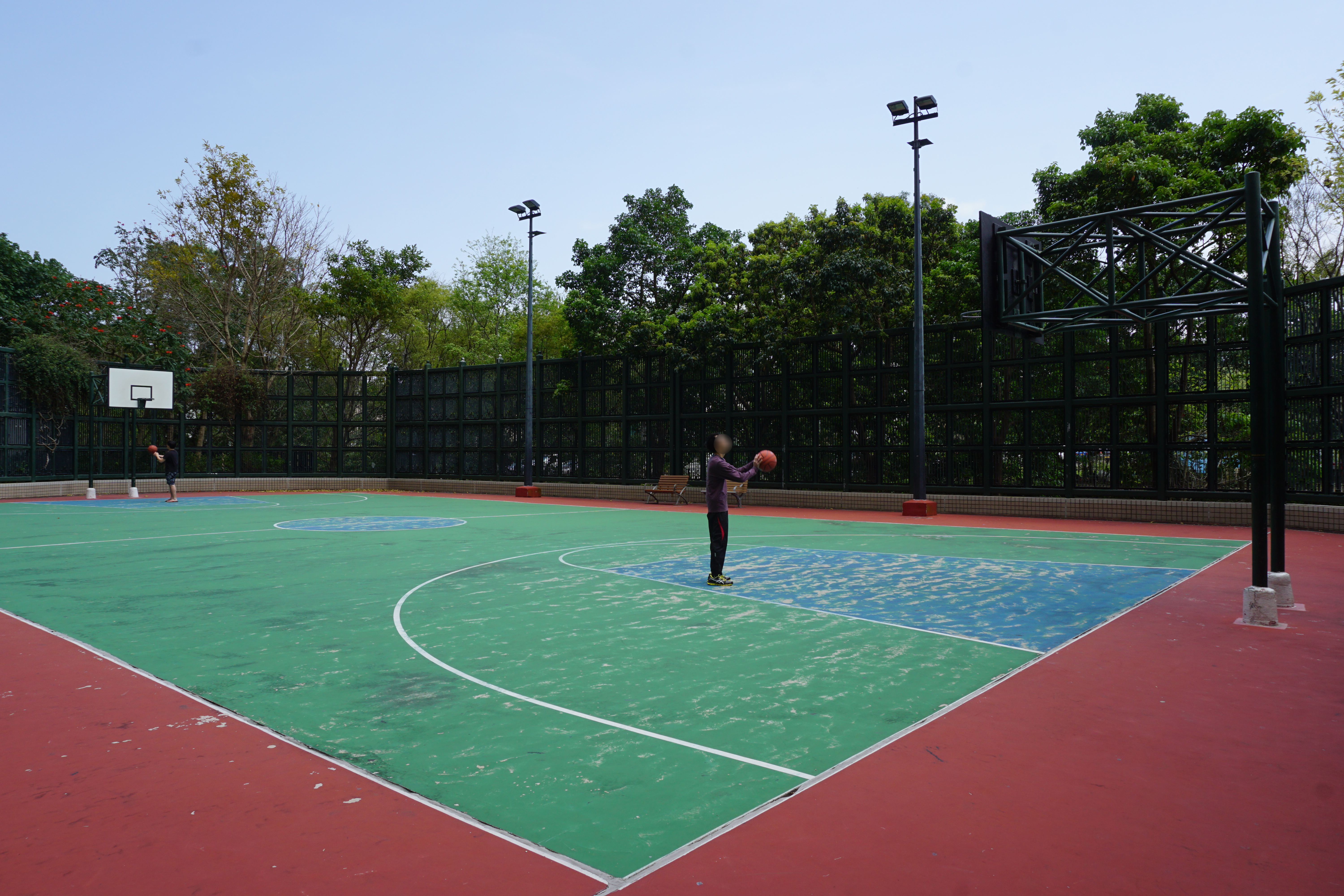 Ching Ho Estate in Sheung Shui, Hong Kong.